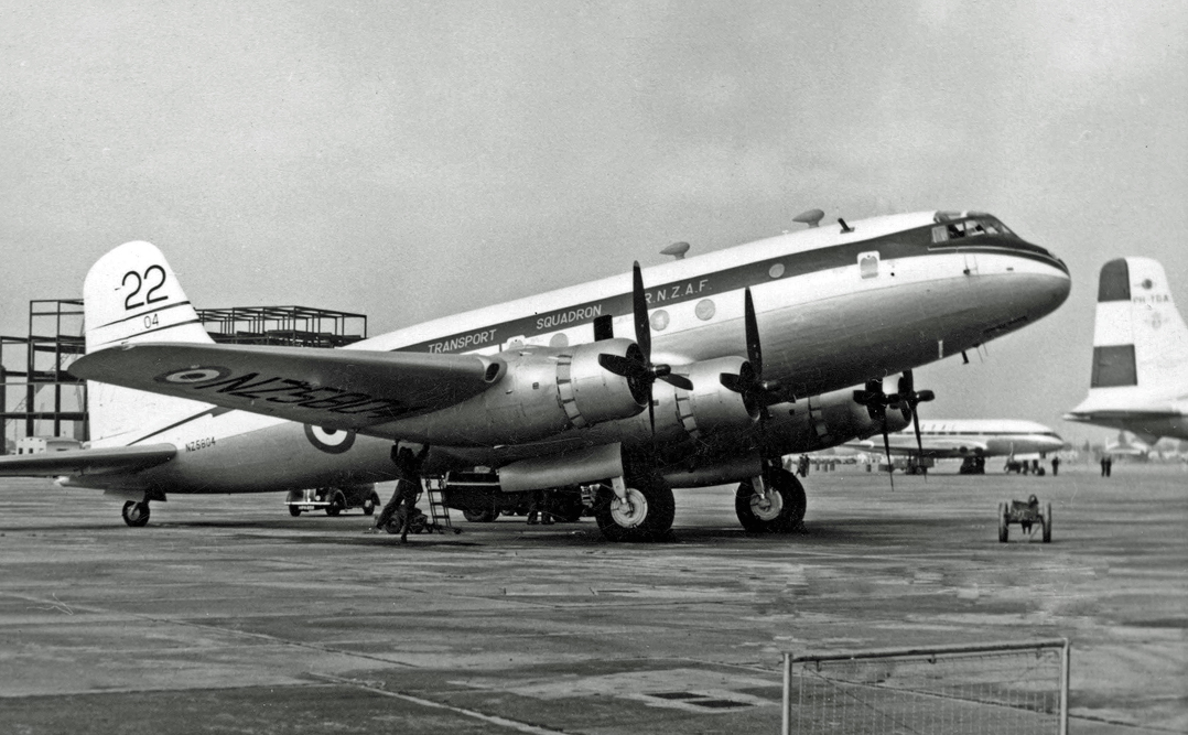 Handlay Page HP.67 Hastings C.2 NZ5804 of 40 Squadron Royal New Zealand Air Force at London Heathrow before the Air Race to Christchurch New Zealand